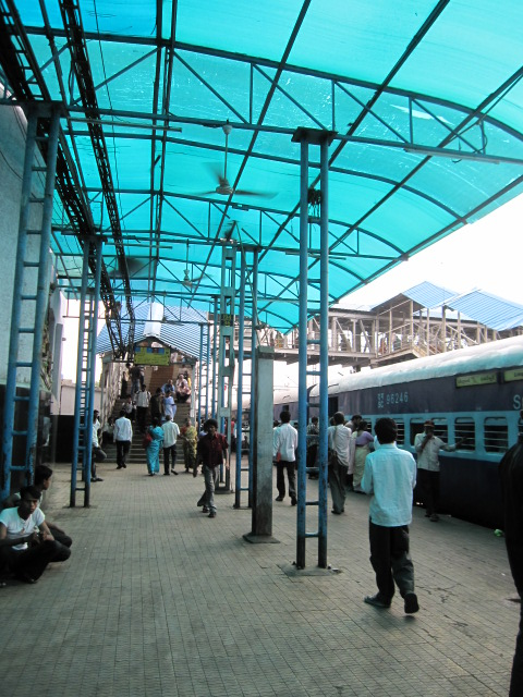 Platform 1 at Secunderabad Railway Station.